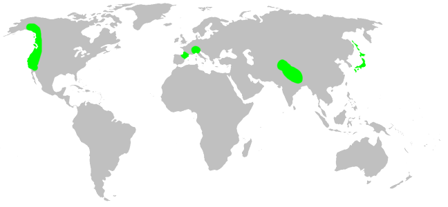 Pimoidae habitat distribution, drawn after Platnick: World Spider Catalog 7.0. This is not a precise rendering of the distribution! If you have better information, please replace this map, or send me the info, and i will redraw it.